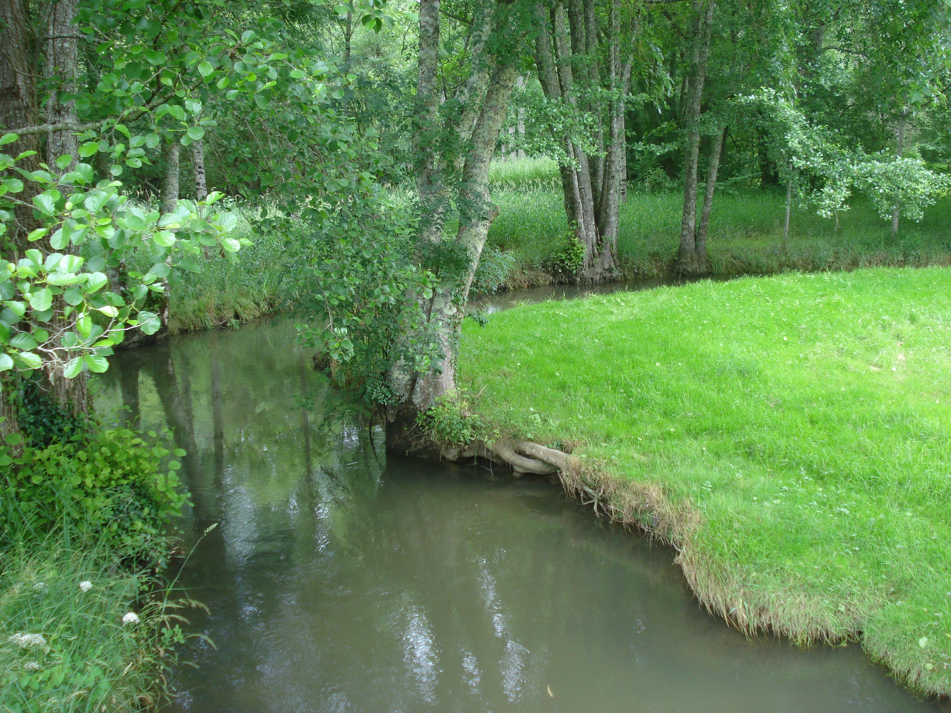 The Salembre river at Puy-de-Pont (Dordogne, Fr)